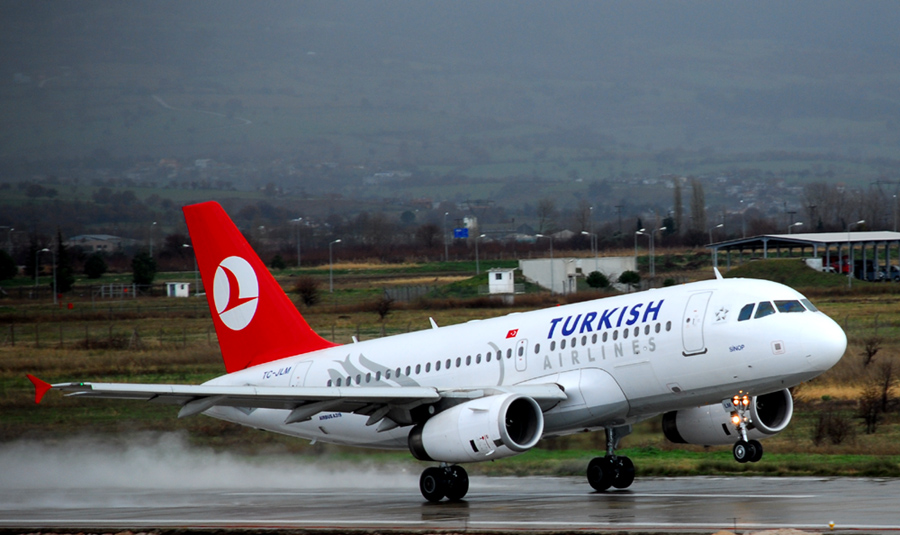 canakkale airport, airbus 319